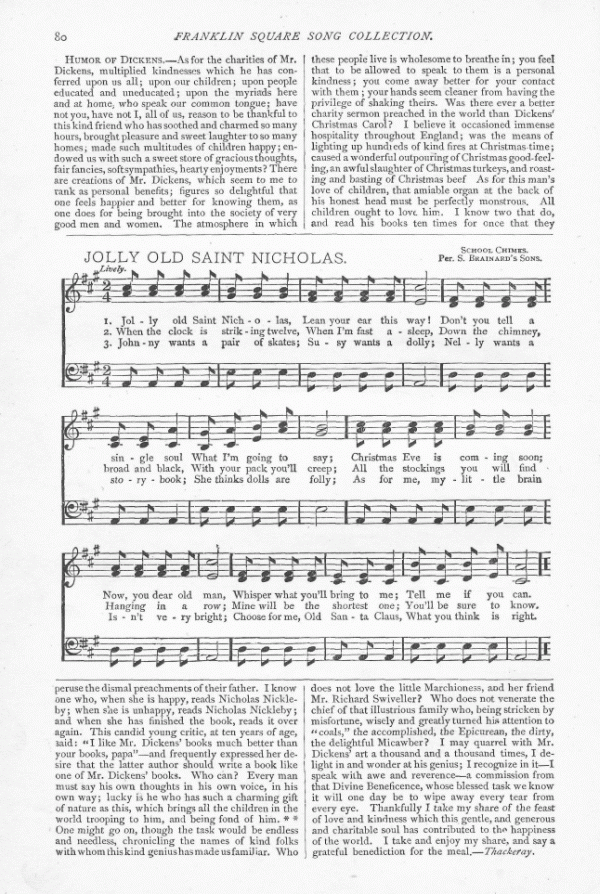 An early printing of the song "Jolly Old St. Nicholas."